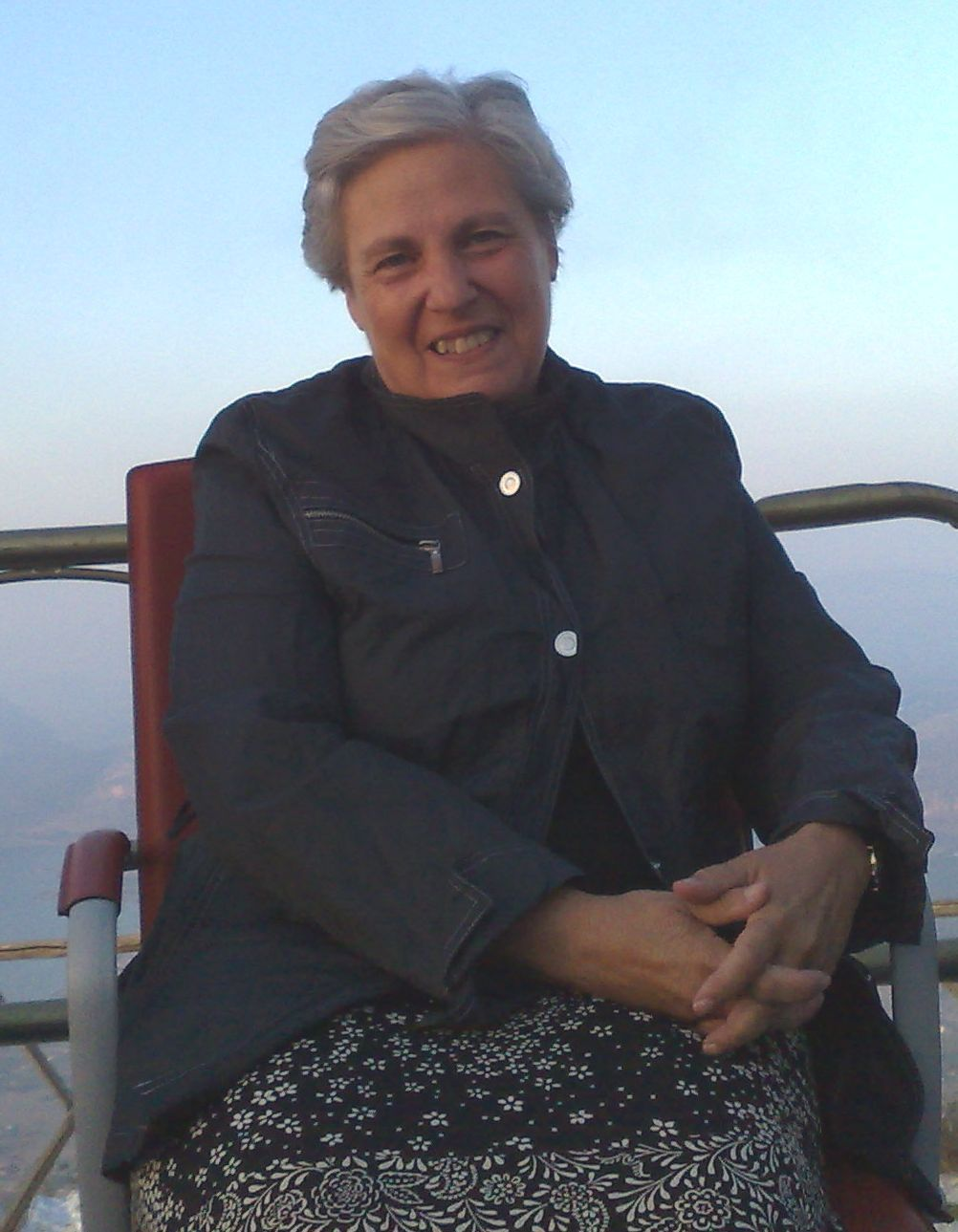 Rita Borsellino (in Erice)